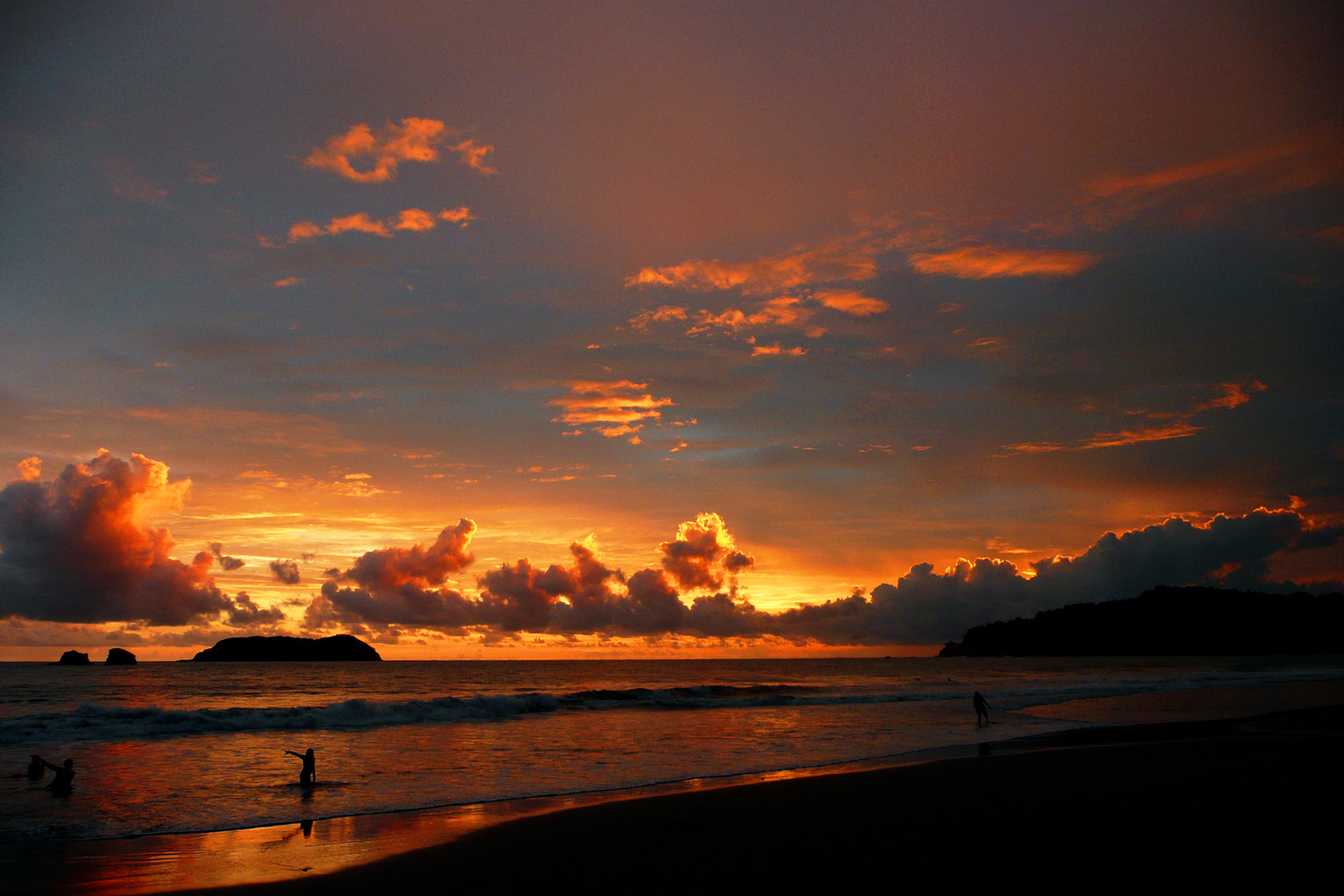 Sunset at Manuel Antonio National Park in Costa Rica, which is "well known for sights of natural beauty."